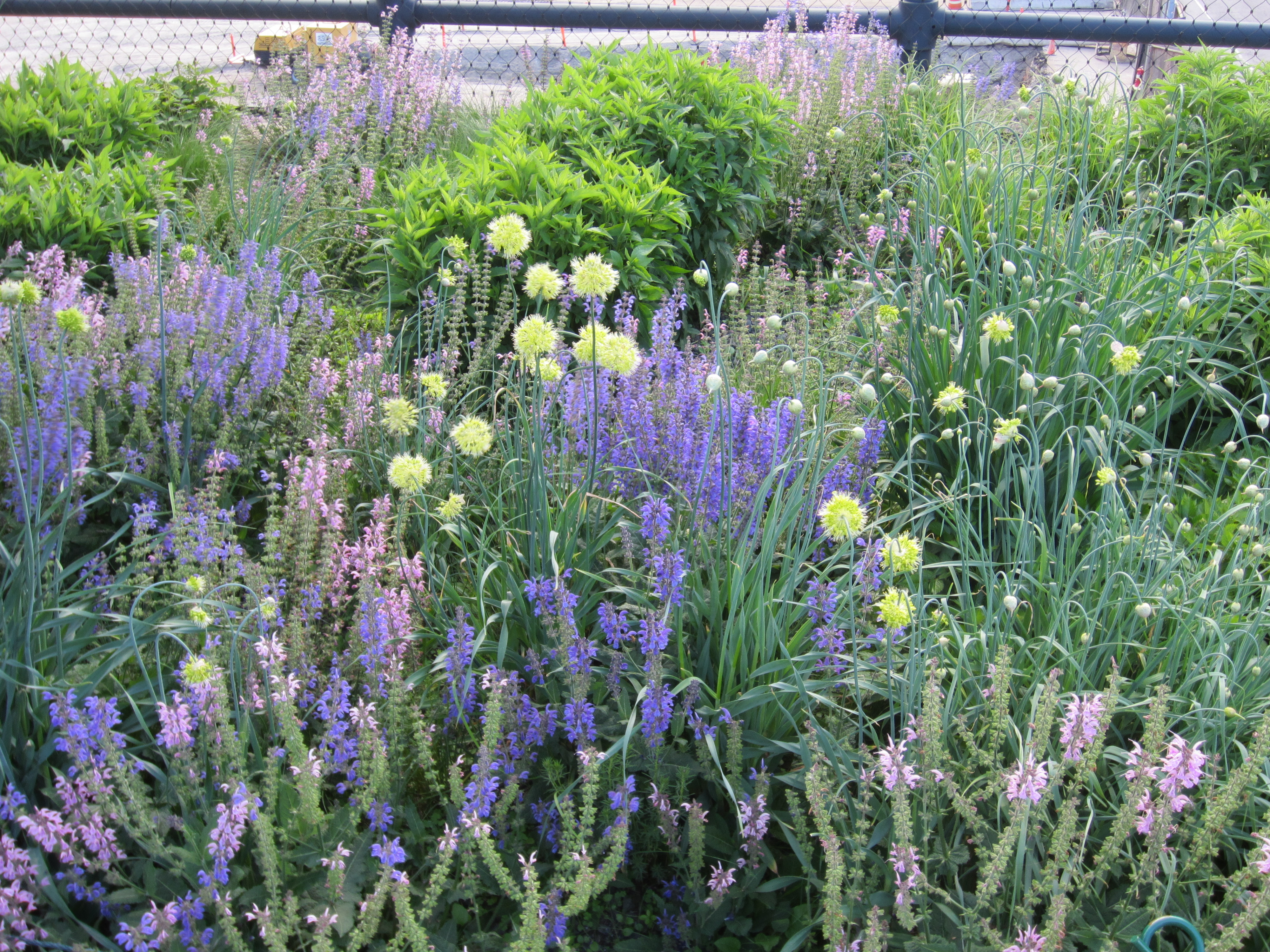 High Line, New York City in May 2014